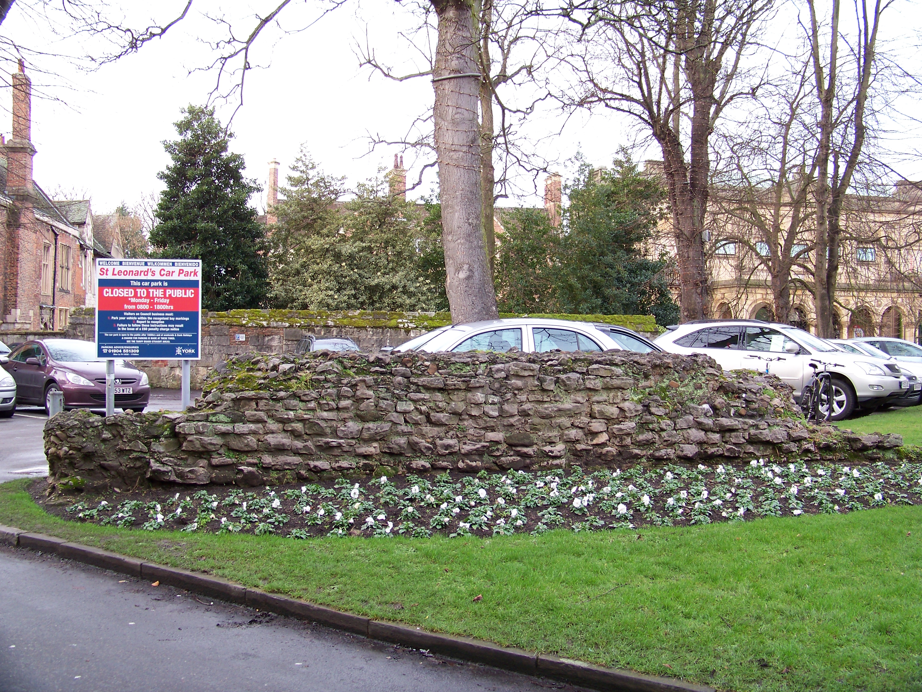 Remains of the outer wall of the Roman fortress of Eboracum, from approximately 300AD, now in St. Leonard's car park, York, England. This has been designated as a grade I listed building.